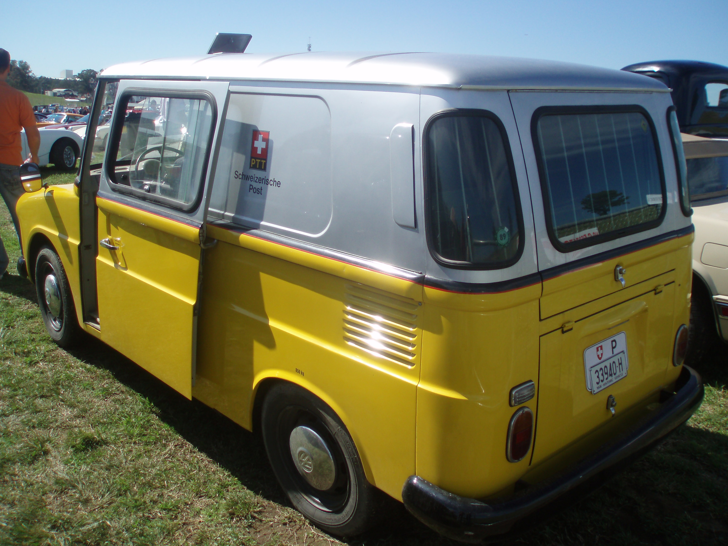 1974 Volkswagen Type 147 panel van - Swiss Post. Specially bodied van built for the Swiss Postal Service, based on the Type 1 Volkswagen floorpan. Officially named the Kleinlieferwagen but nicknamed the Fridolin. Taken at Shannon's Eastern Creek Classic 2007, held at Eastern Creek Raceway Sydney.